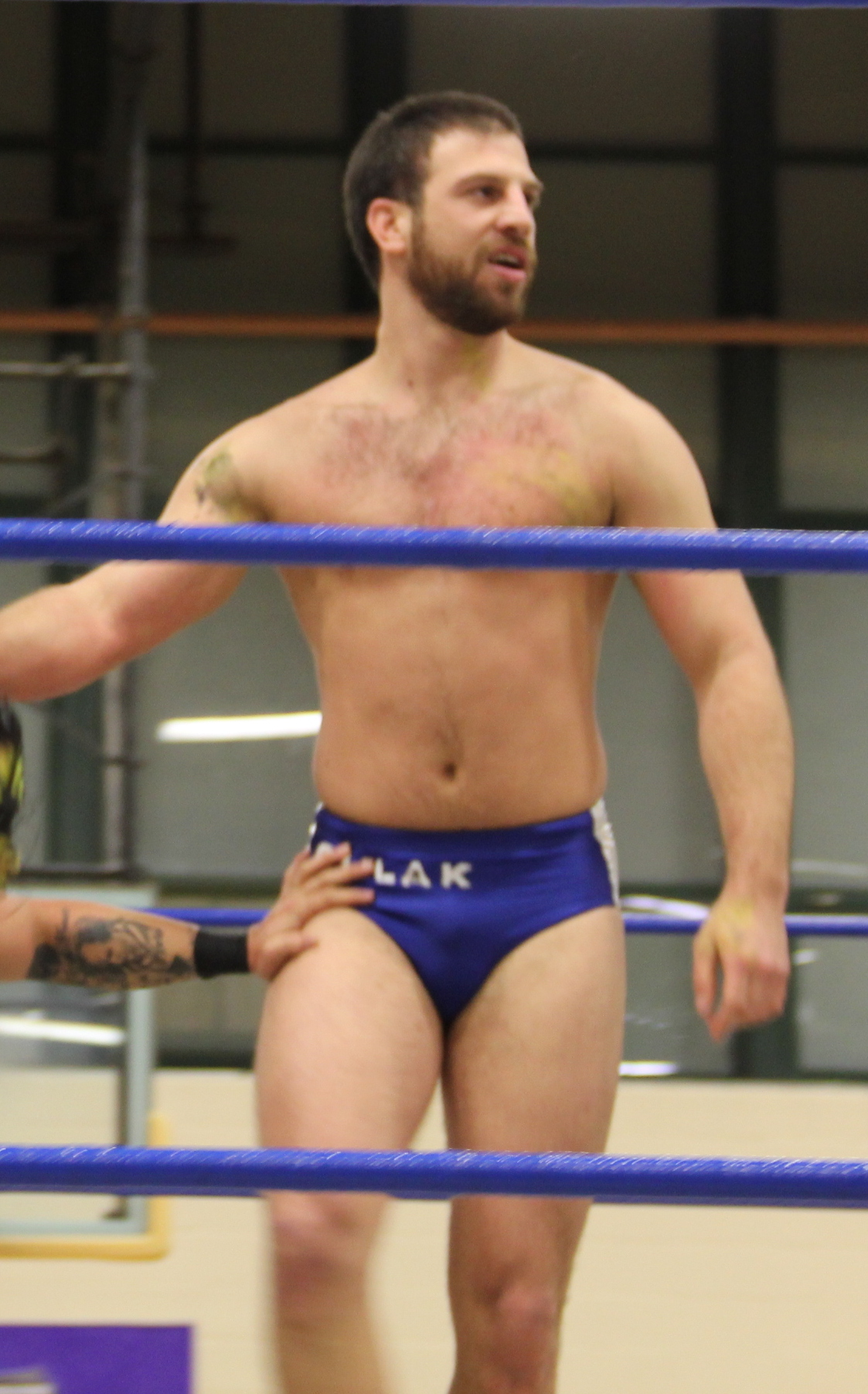 Drew Gulak in the ring, wrestling a member of The Batiri at Wrestling is Art show in February 2013.